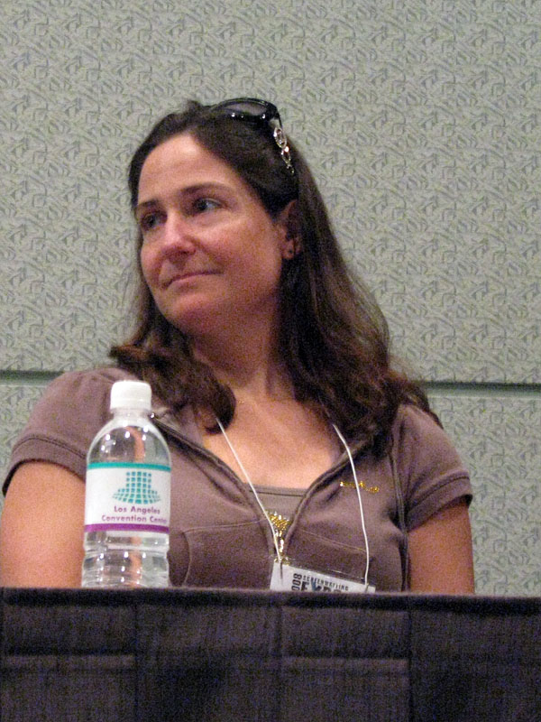 My Friends Tigger & Pooh staff writer Nicole Dubuc She was the only woman on the animation panel.